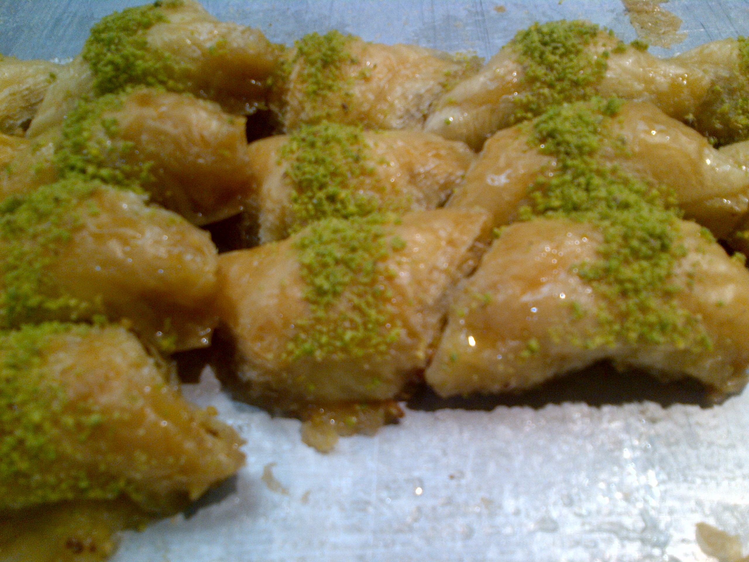 Şöbiyet is a Turkish dessert.